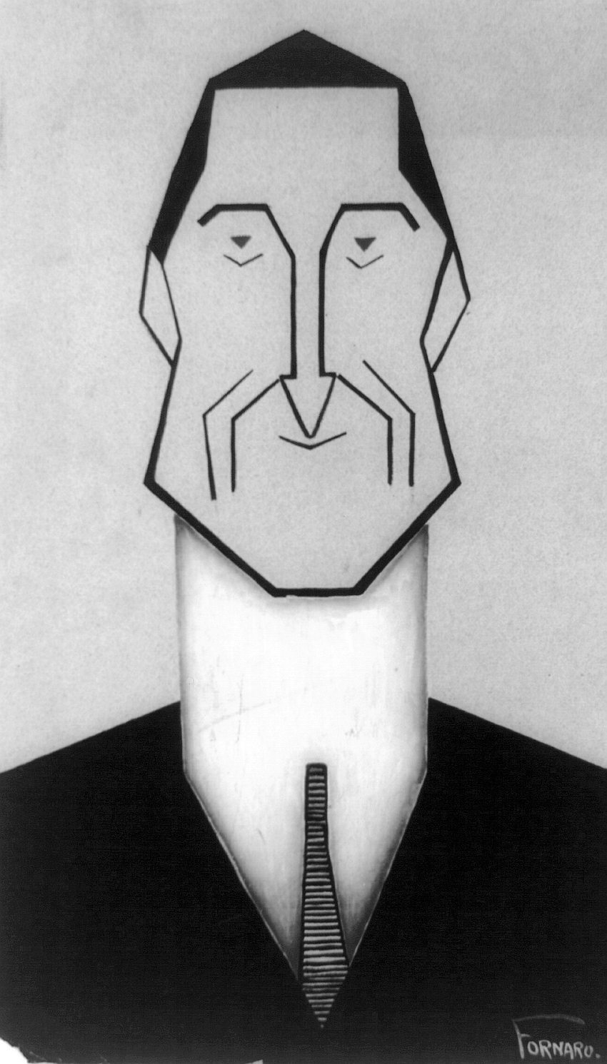 "A long man with a long head." Caricature of U.S. Secretary of the Treasury William Gibbs McAdoo (1863-1941) by Carlo de Fornaro (1871-1949). Published in "Puck", week ending 25 April 1914. 1 drawing: India ink over pencil, with opaque white on light blue tinted illustration board, 45.8 x 31.6 cm. (sheet).